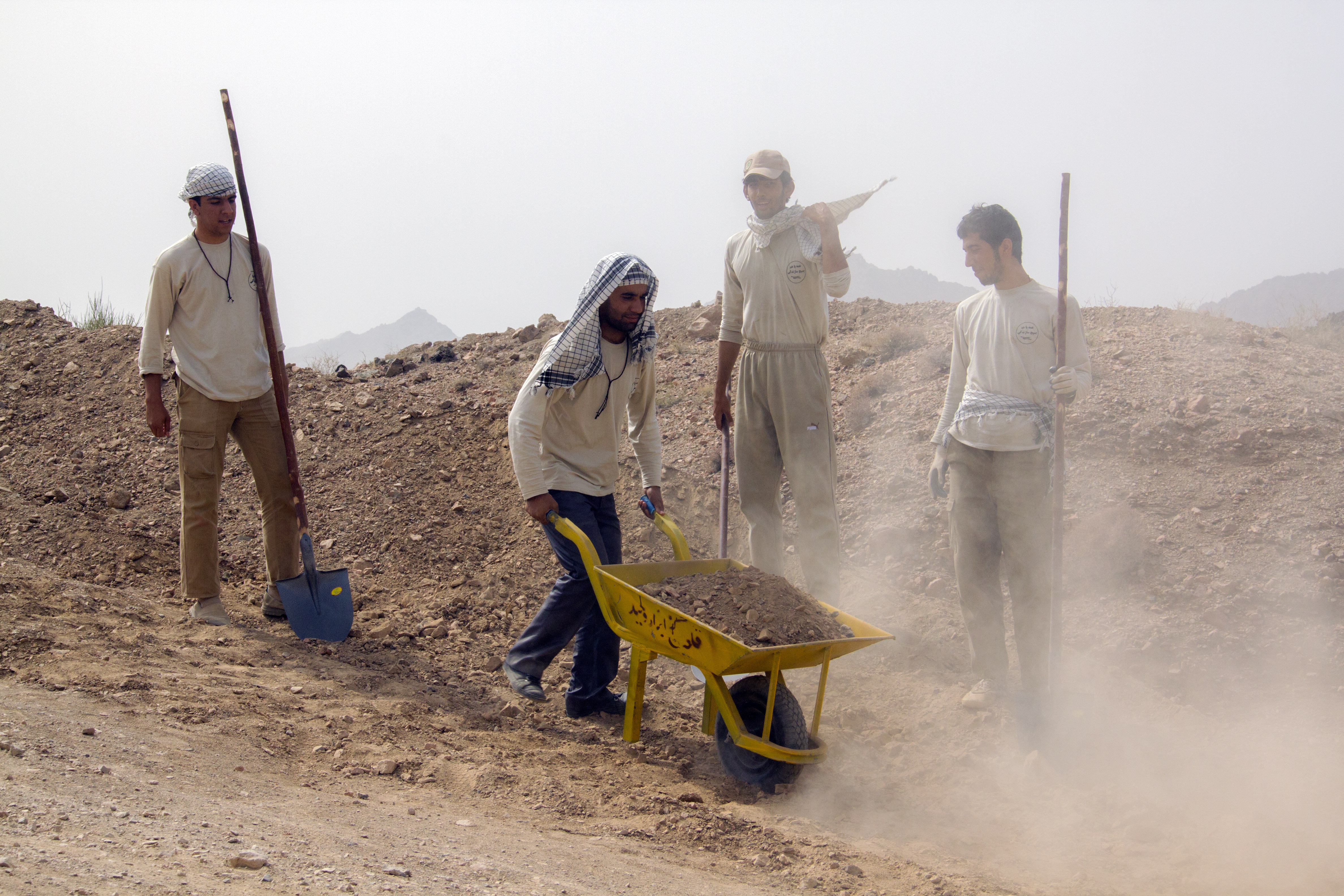 The Basij (Persian: بسيج, lit. "The Mobilization"), Niruyeh Moghavemat Basij (Persian: نیروی مقاومت بسیج, "Mobilisation Resistance Force"), full name Sāzmān-e Basij-e Mostaz'afin (Persian: سازمان بسیج مستضعفین, "The Organization for Mobilization of the Oppressed"), is one of the five forces of the Army of the Guardians of the Islamic Revolution. A paramilitary volunteer militia established in Iran in 1979 by order of Ayatollah Khomeini, leader of the Iranian Revolution, the organization originally consisted of civilian volunteers who were urged by Khomeini to fight in the Iran–Iraq War.